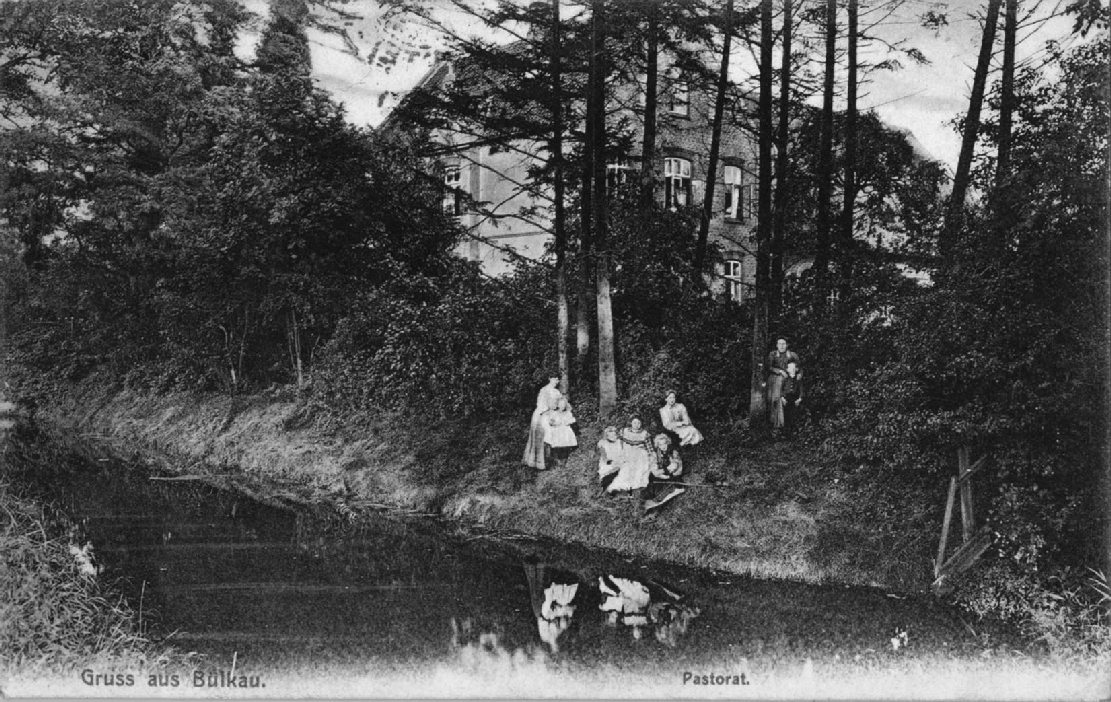 Pictures